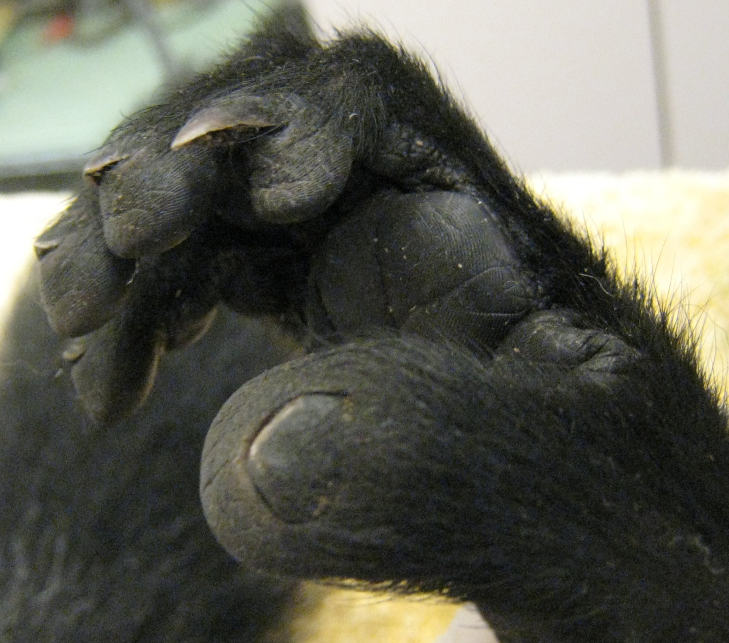 Varecia variegata foot, showing toilet-claw (2nd toe) and nails (all other toes); taken during a routine physical examination